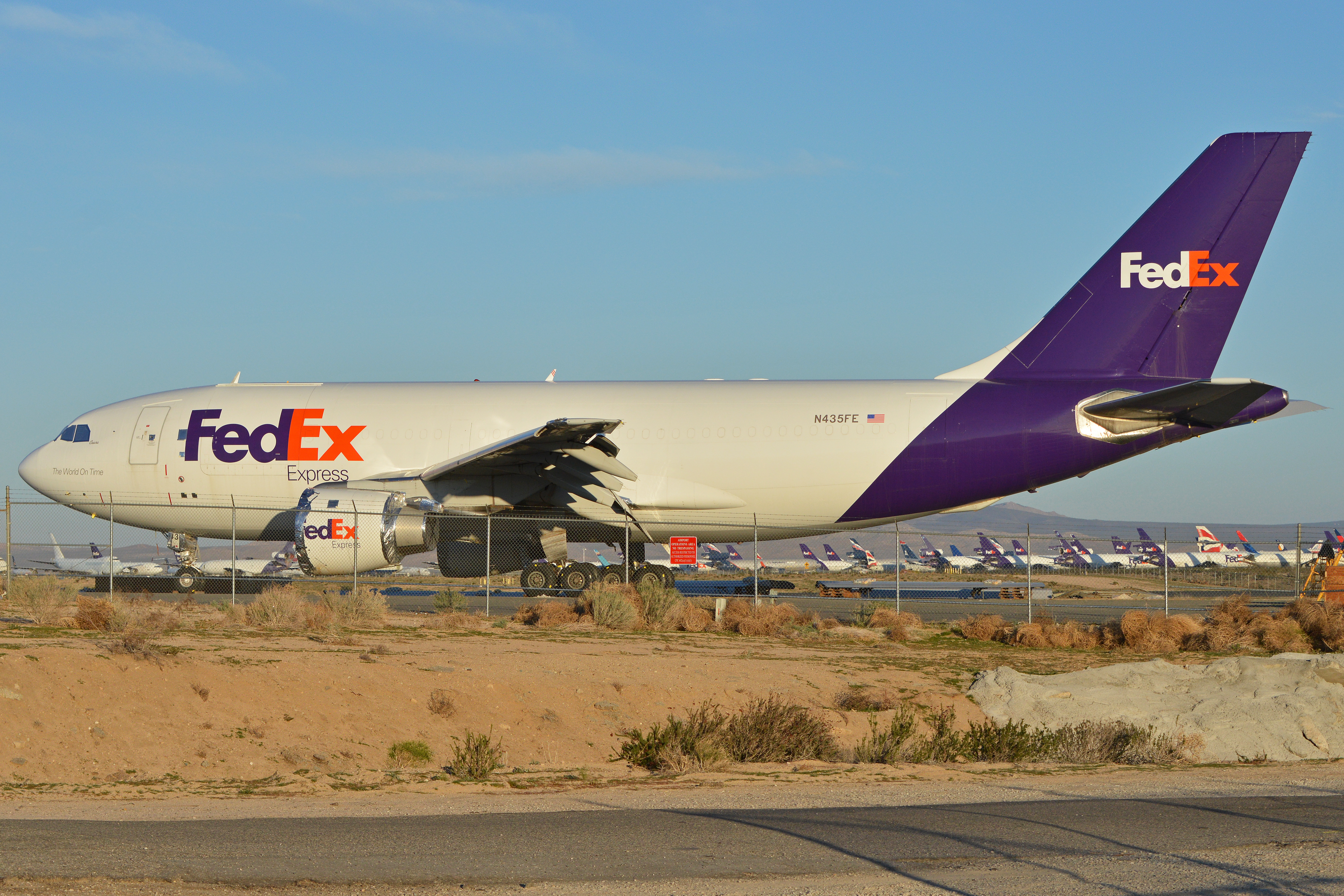 c/n 369. Built 1985 for Air France as ‘F-GEME’. Acquired by FedEx in 2002 it was converted to a freighter in 2004 and remained in their use until recently. Southern California Logistics Airport. Victorville, CA, USA. 29-2-2016